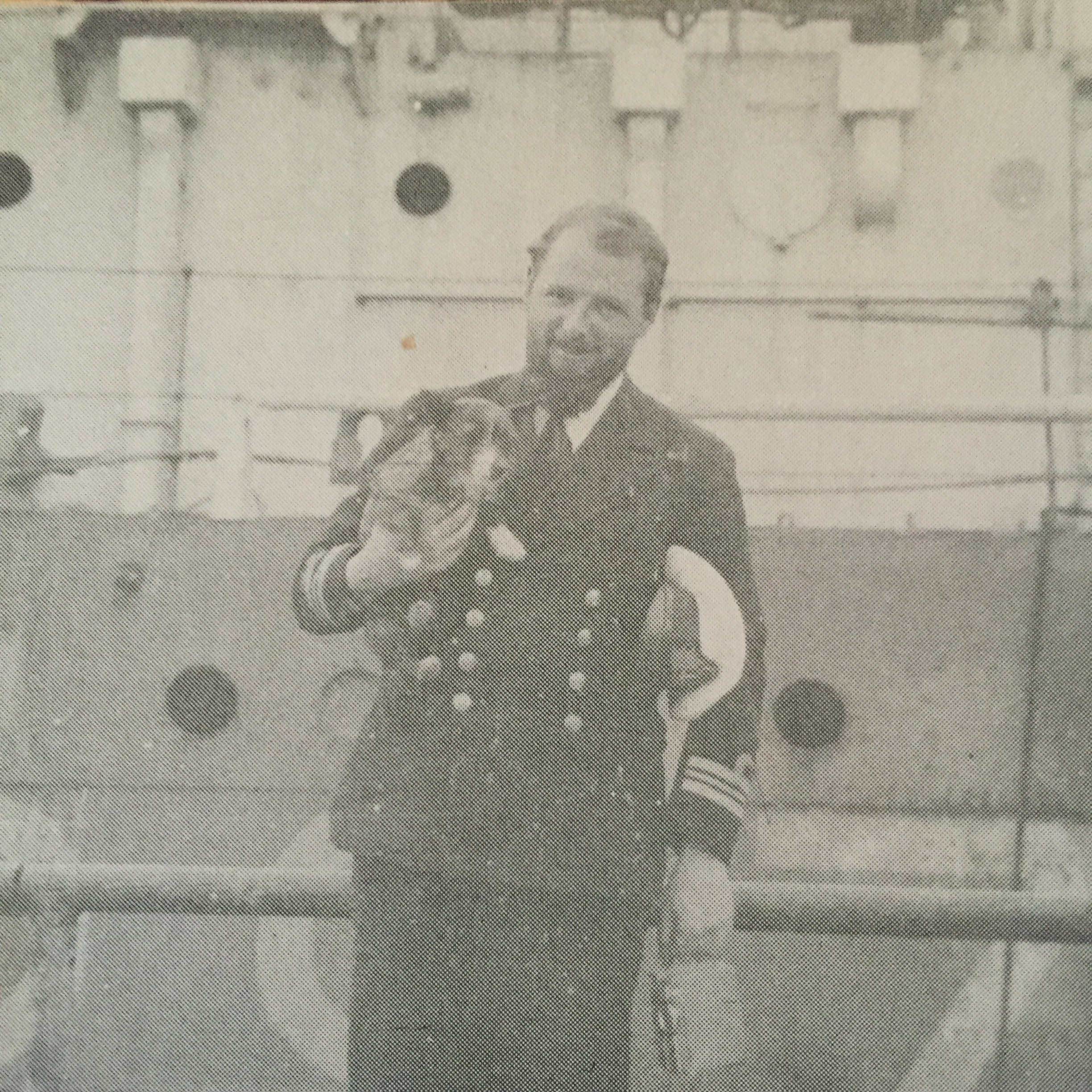 Lt Commander Hill leaving HMS Grenville for HMS Jervis with ship dog Skerki